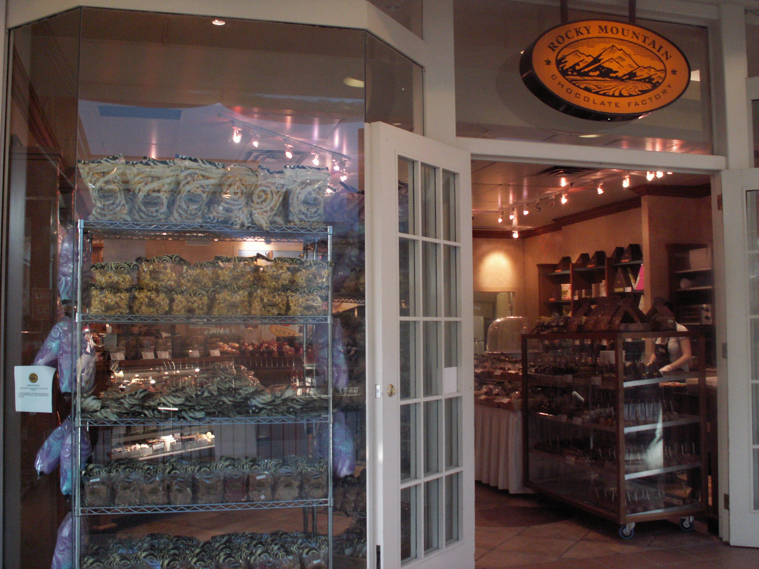 Exterior of Rocky Mountain Chocolate Factory store in Polo Park mall in Winnipeg.